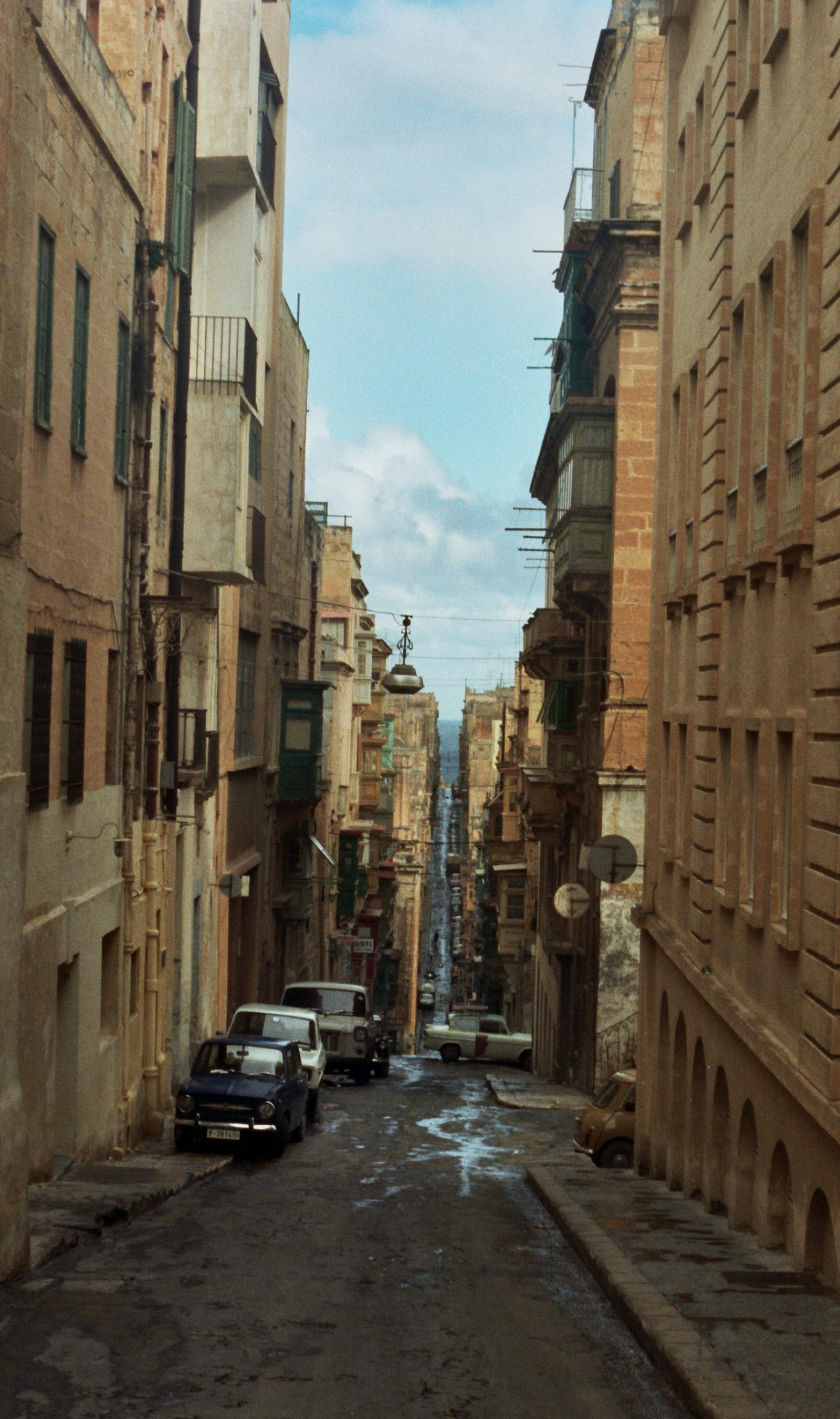 Small street in Valletta 1980, Photographer Gerhard Hund.